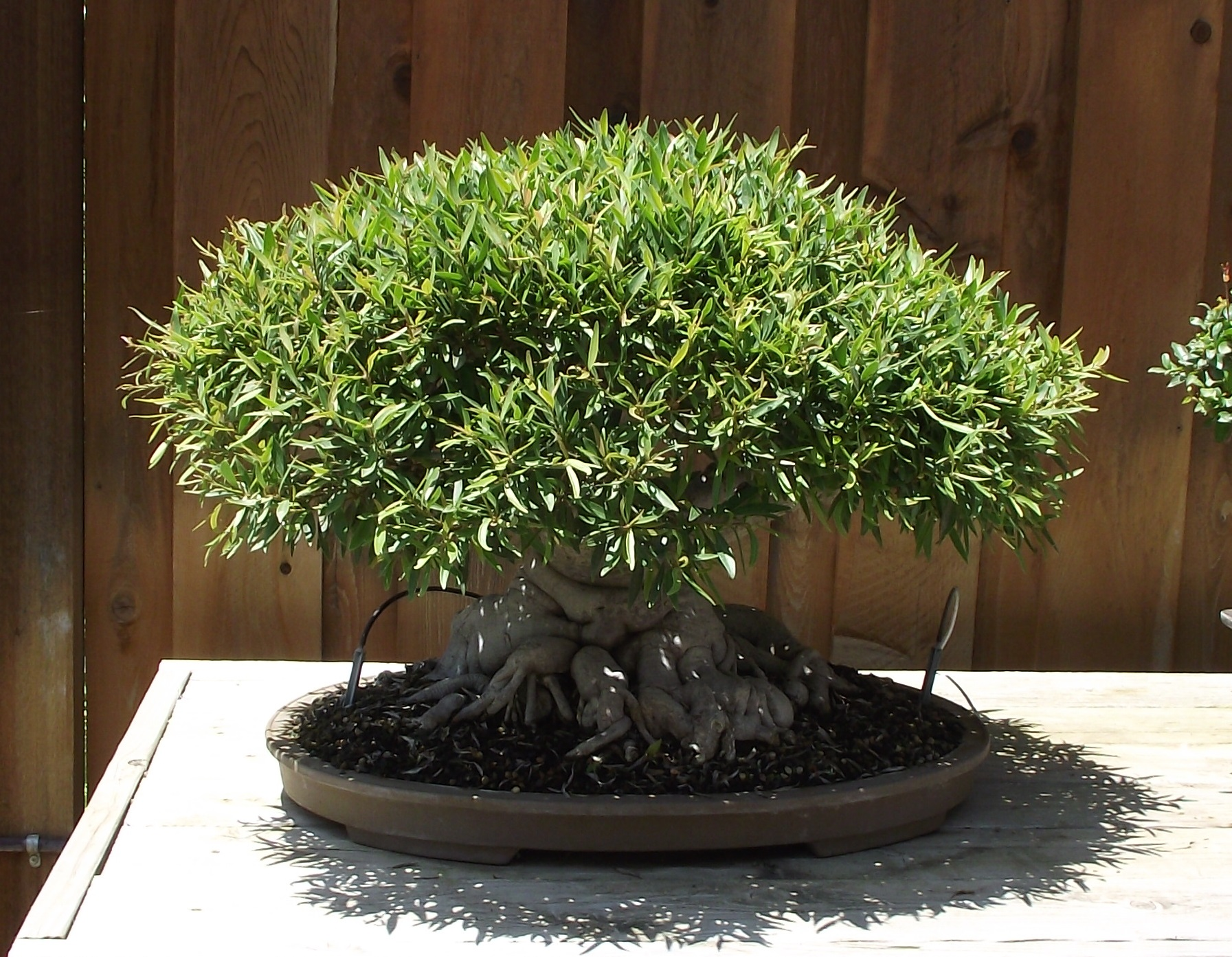 Ficus neriifolia bonsai at the San Diego Zoo Safari Park, Escondido, CA, USA